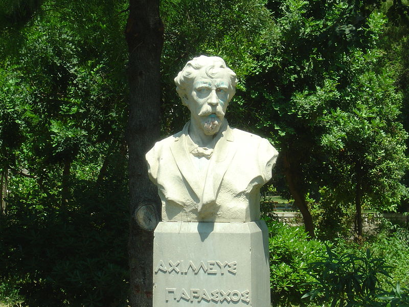 Achilles Paraschos, Greek poet statue, Athens 2009